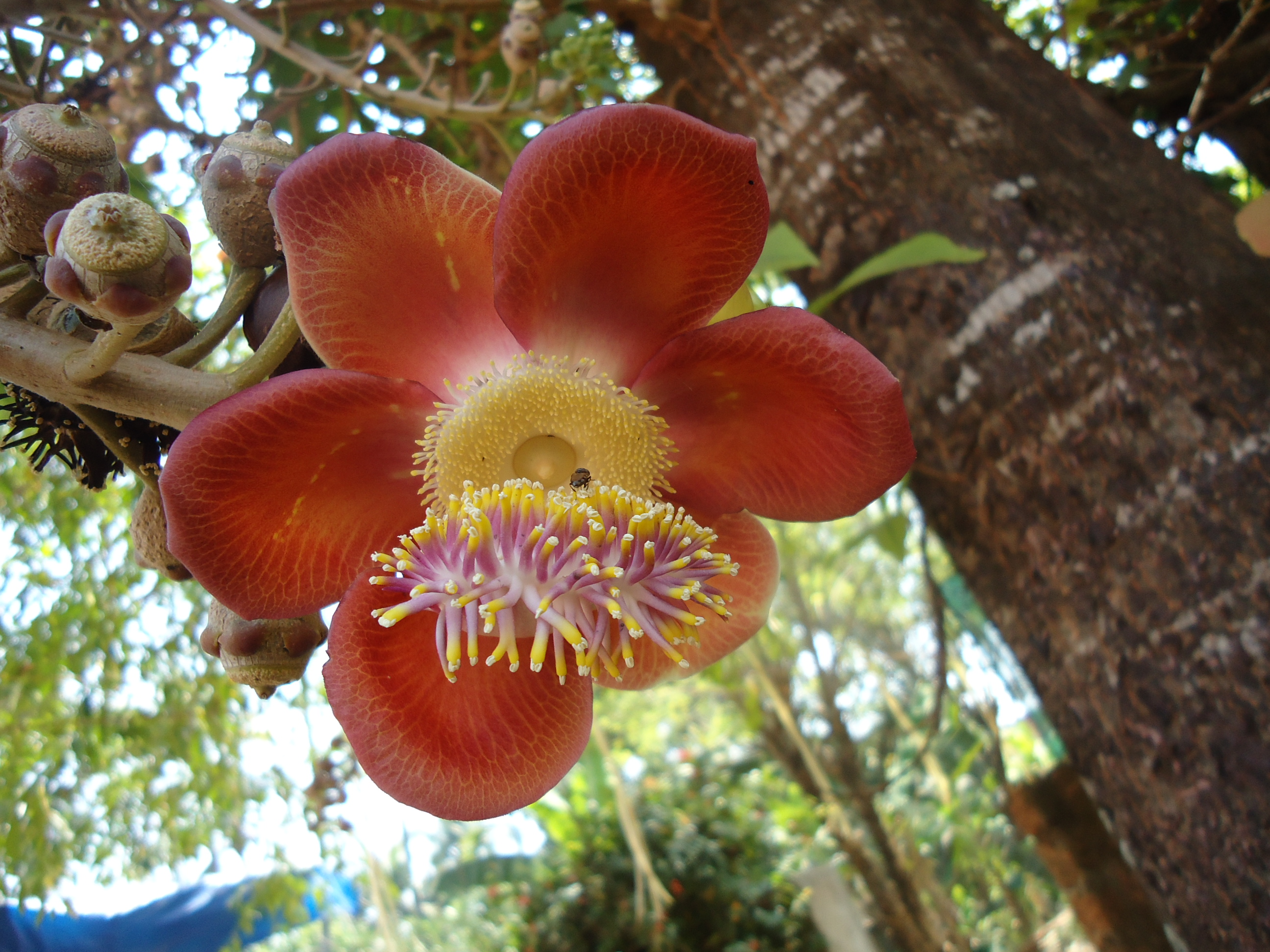 Flower of Cannon Ball Tree